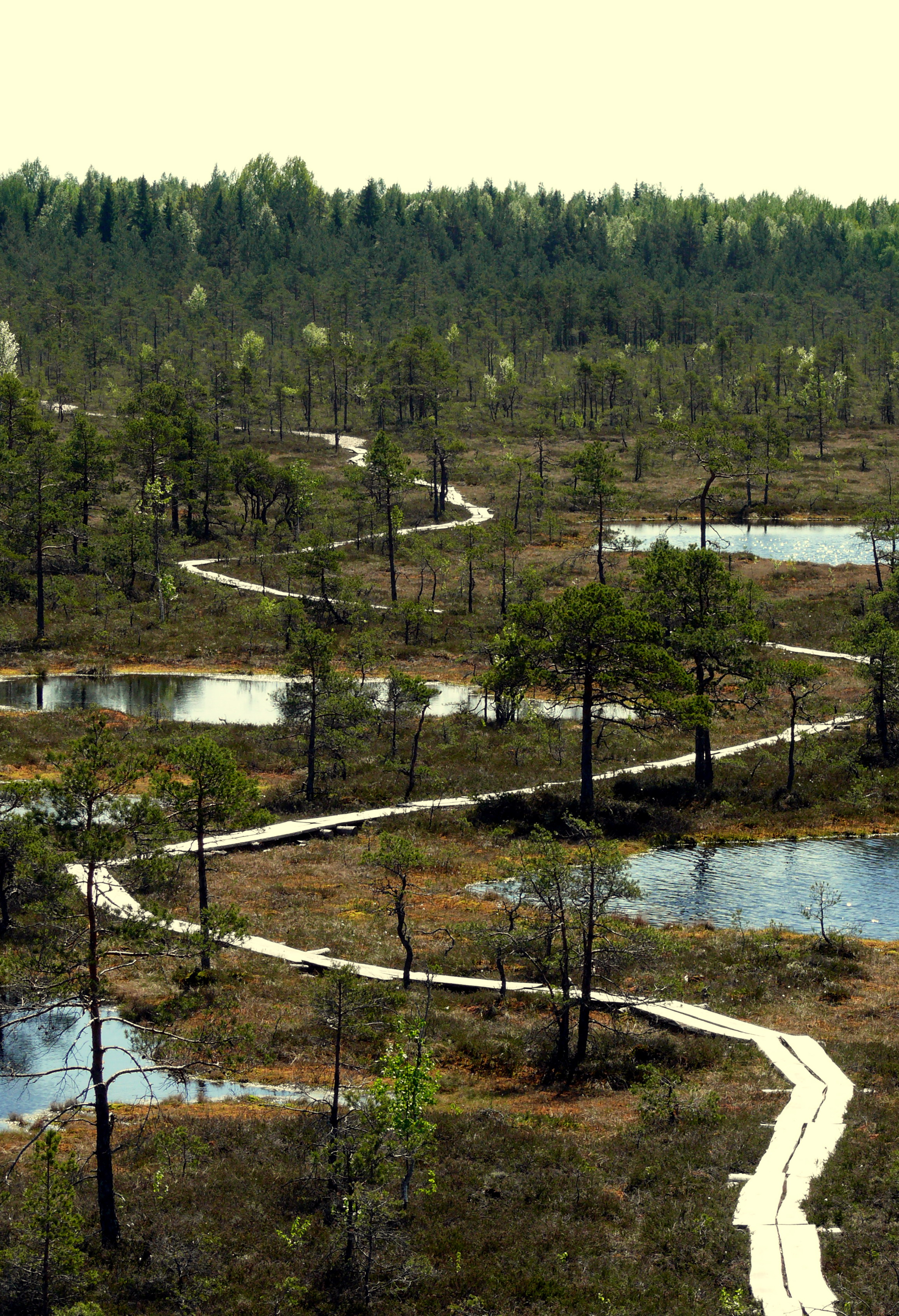 Bog Mukri in Rapla County, northern-central Estonia.